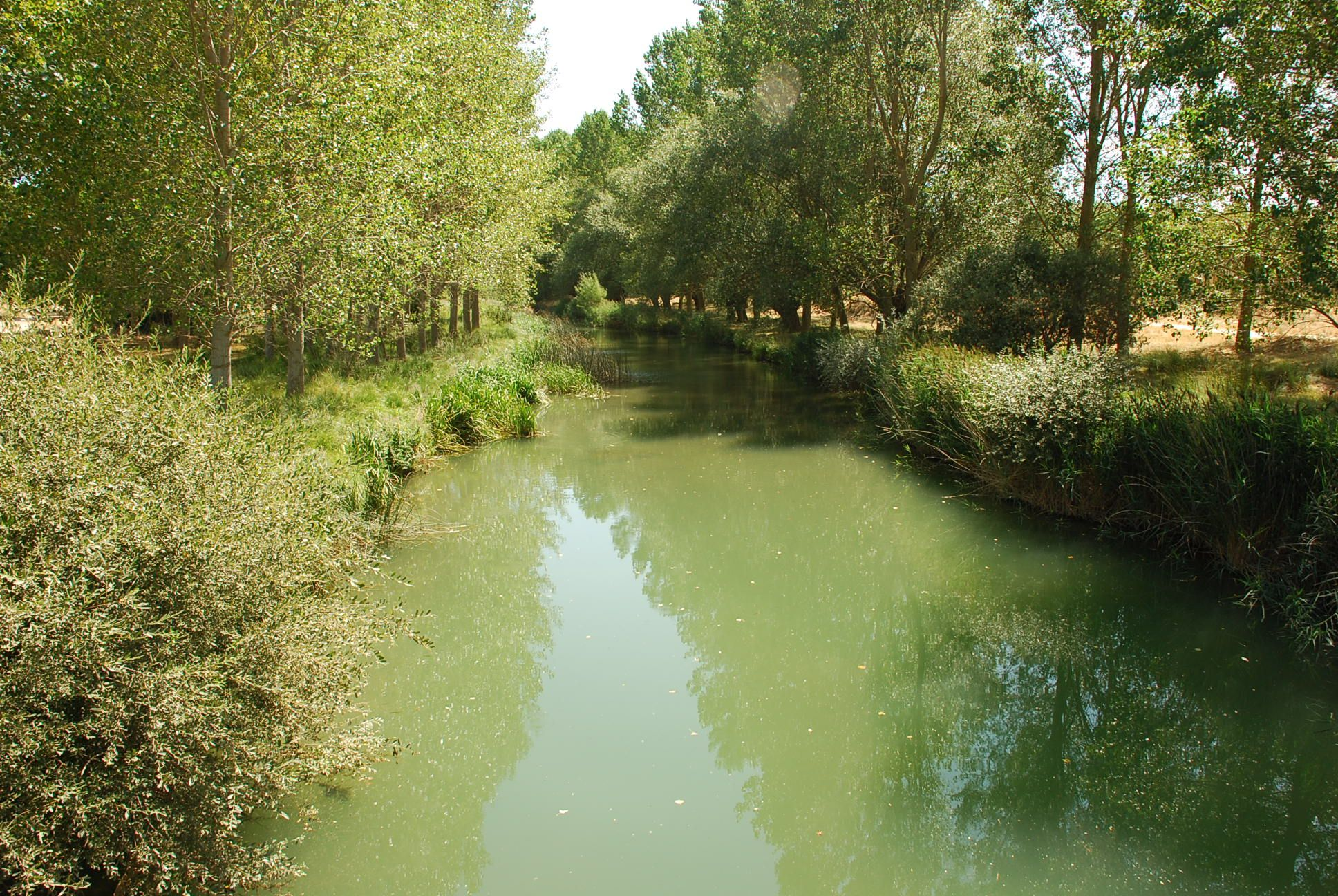 Valdavia river over Polvorosa de Valdavia (Palencia, Castile and León).